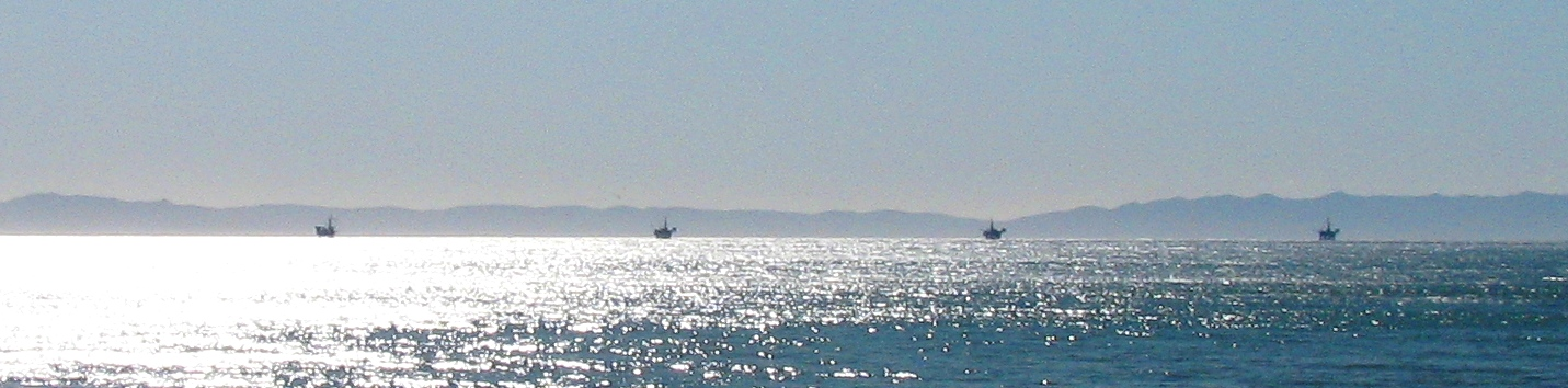 The four oil drilling platforms of the Dos Cuadras Offshore Oil Field. From left to right, Hillhouse, A, B, C. "A" was the source of the 1969 Santa Barbara oil spill, birth of the modern environmental movement. Photo by self, GFDL/equiv.